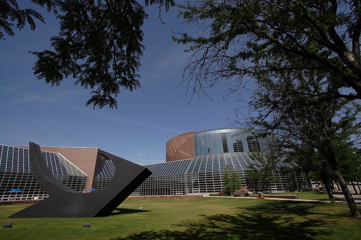 Peoria Civic Center, Peoria, Illinois, 2006. In the foreground is the sculpture Sonar Tide by Ronald Bladen.